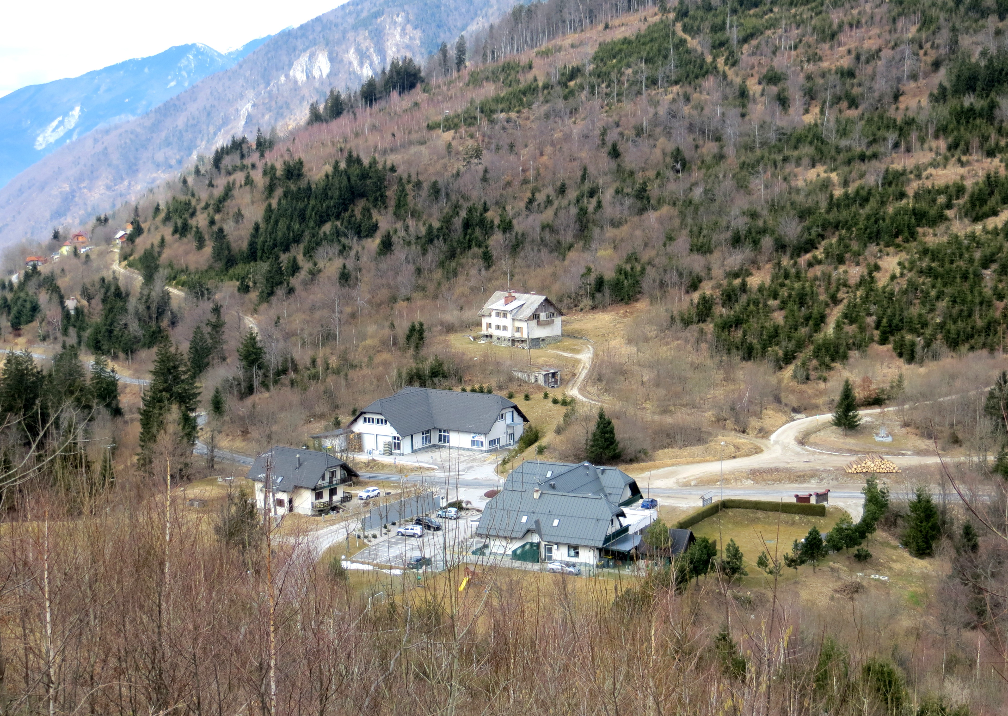 The Črnivec Pass in Podlom, Municipality of Kamnik, Slovenia